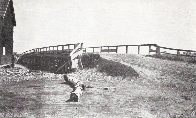 Bridge over the Webhannet River, Wells Beach, Maine